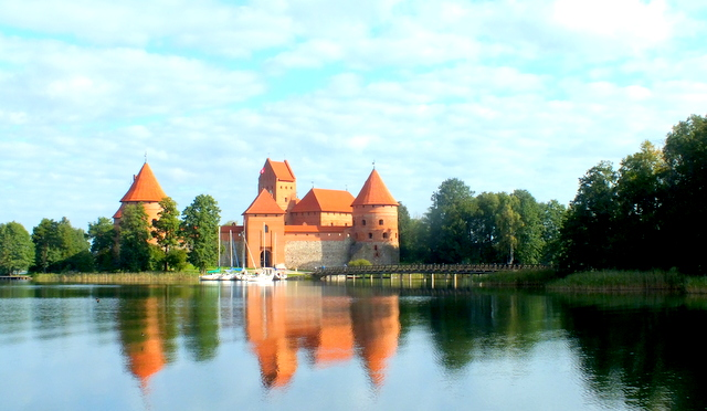 Trakai Island Castle